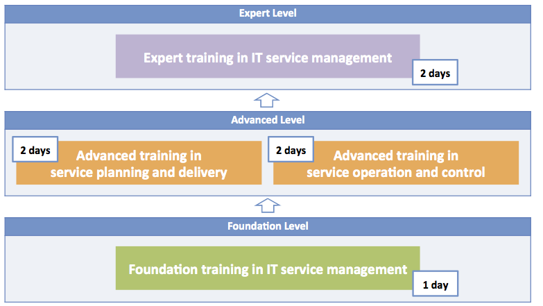 FitSM qualification scheme